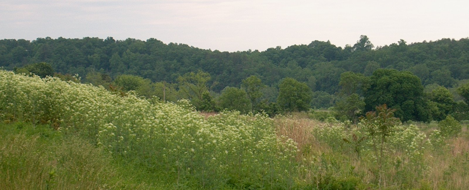 Trees in James River State Park in Buckingham County, Virginia.